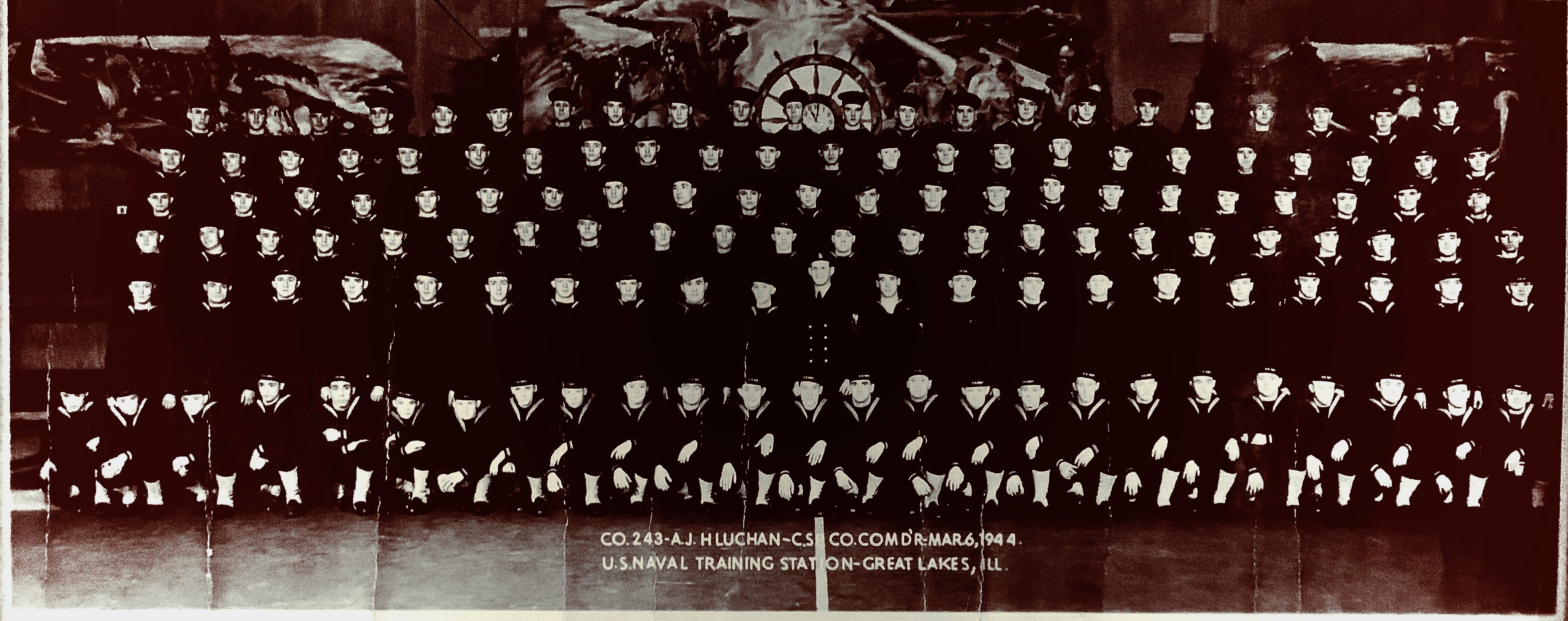 Assembled